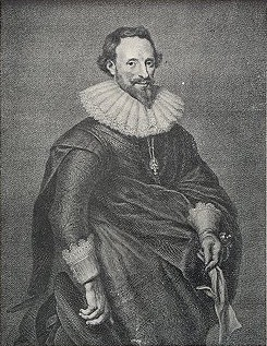 Portrait of seventeenth century Dutch writer Pieter Cornelisz. Hooft.